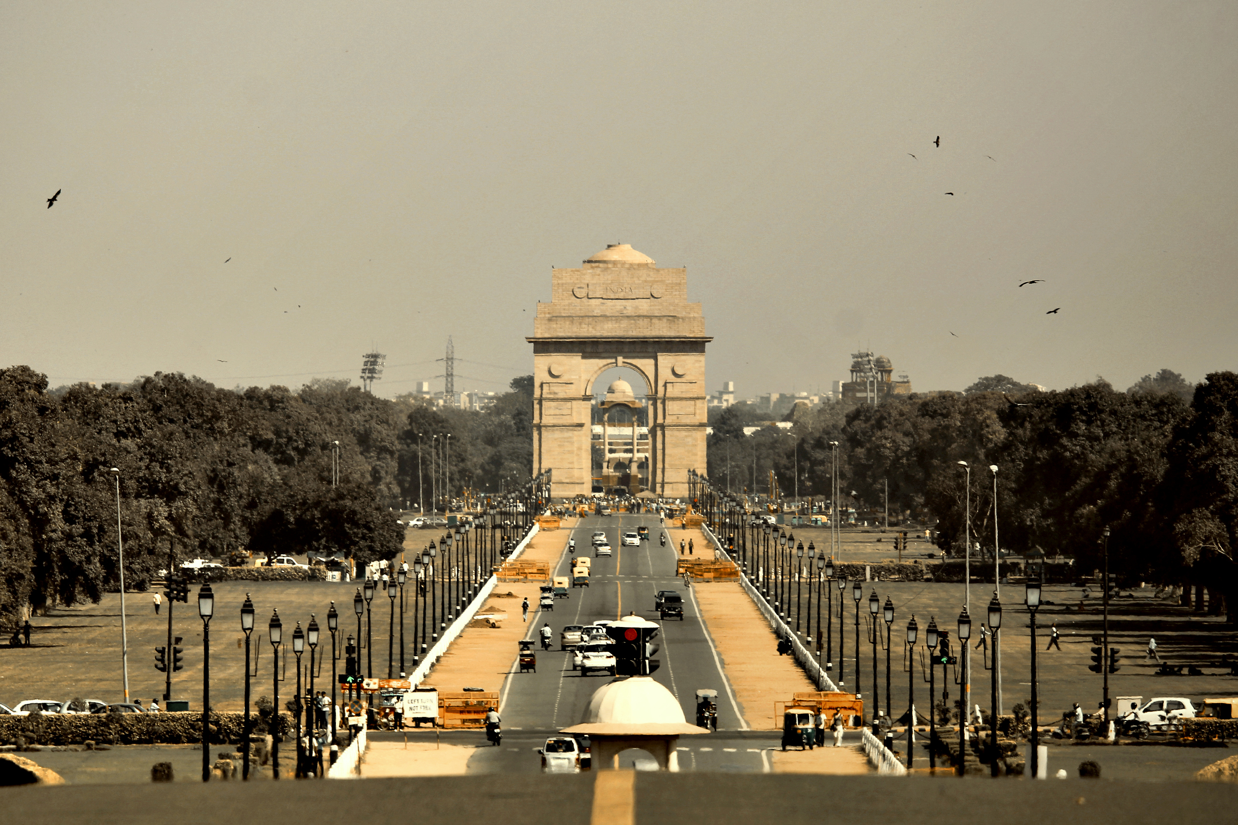 The India Gate is the national monument of India. Situated in the heart of New Delhi, it was designed by Sir Edwin Lutyens.